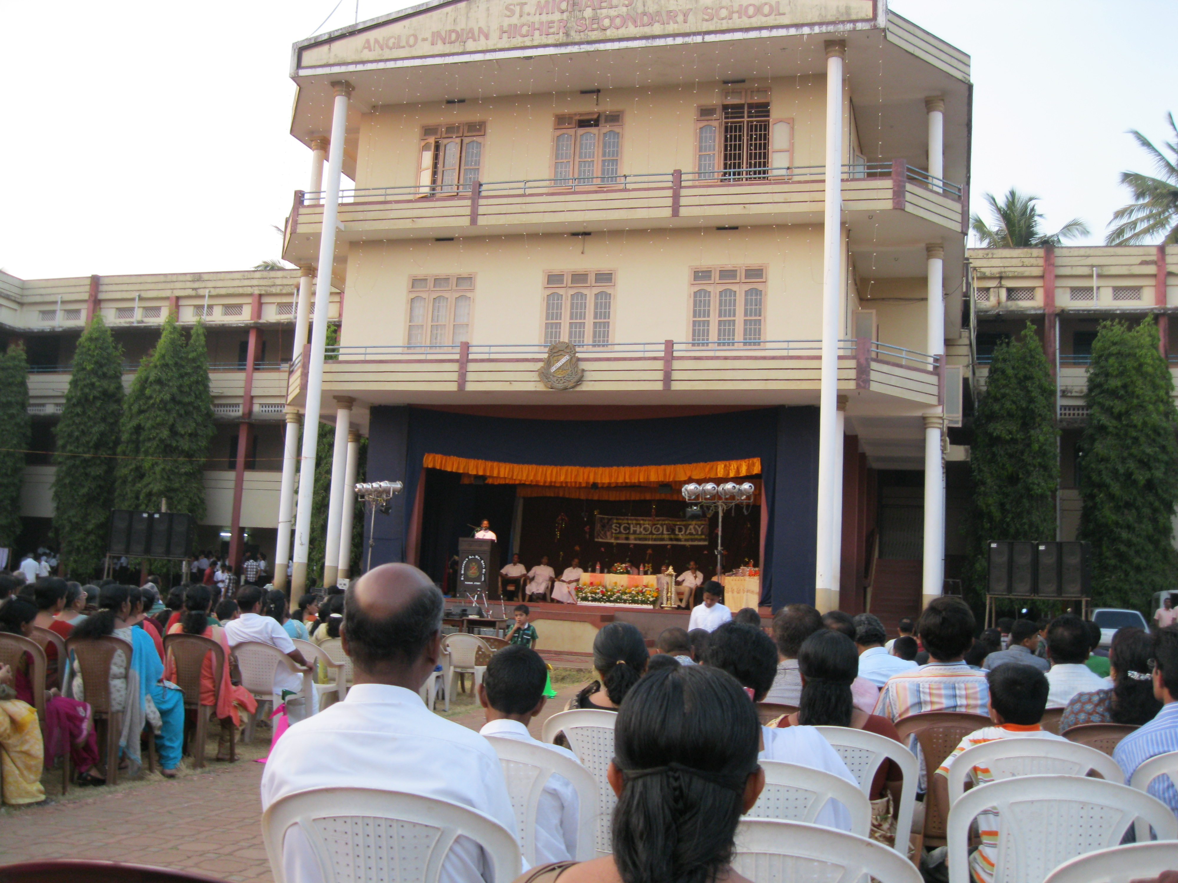 St. Michel's Anglo Indian higher secondary school,Kannur